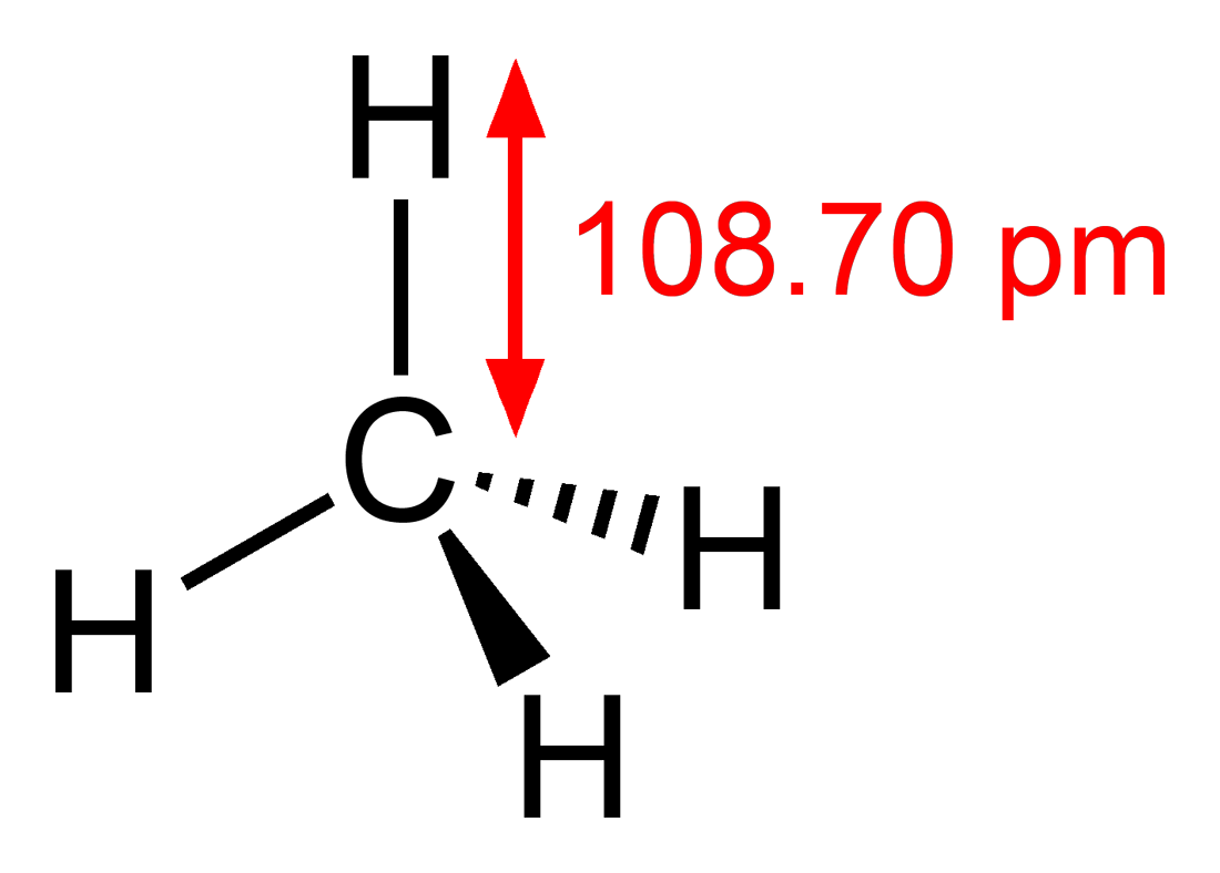 Structural formula of the methane molecule, CH4. The molecule belongs to the Td point group. Structural information (determined by microwave spectroscopy) from CRC Handbook, 88th edition.